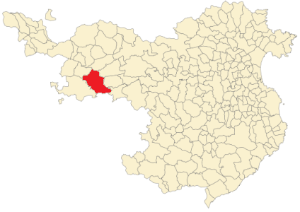 Ripoll